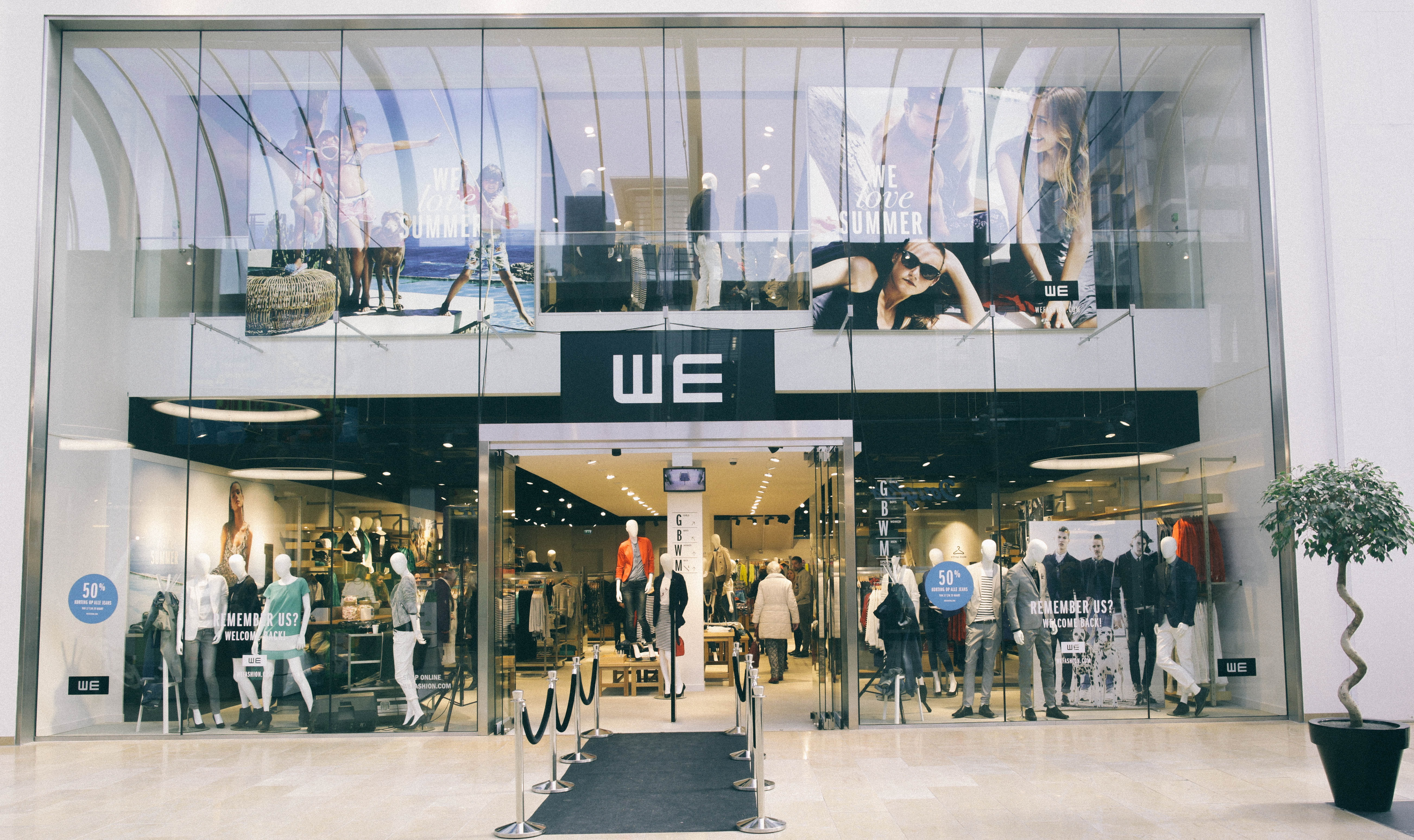 WE Store in Amstelveen